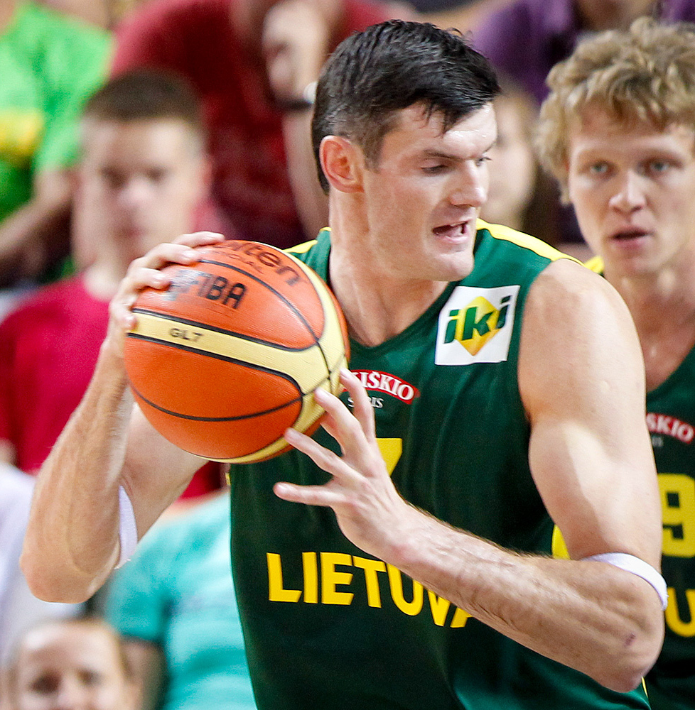 Lithuanian basketball player Dariusz Lawrynowicz